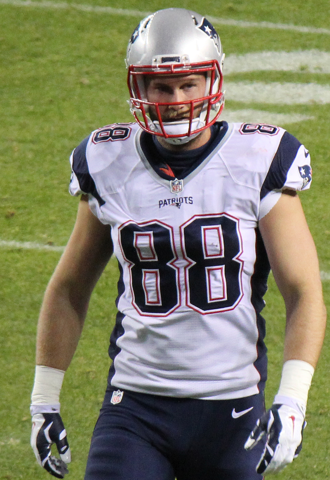 Scott Chandler, a player on the National Football League.